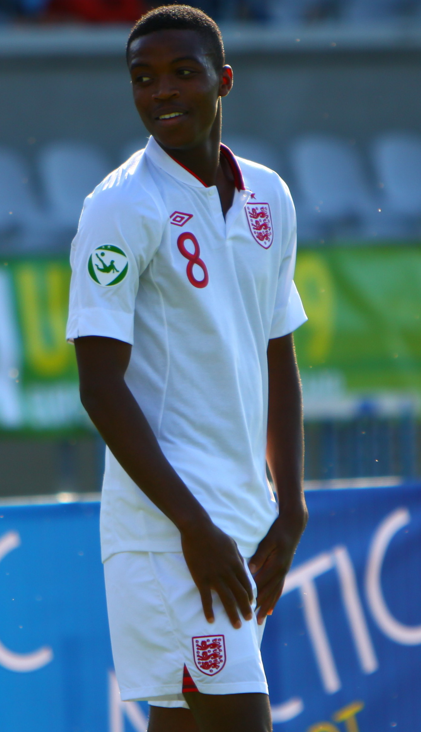 Nathaniel Chalobah